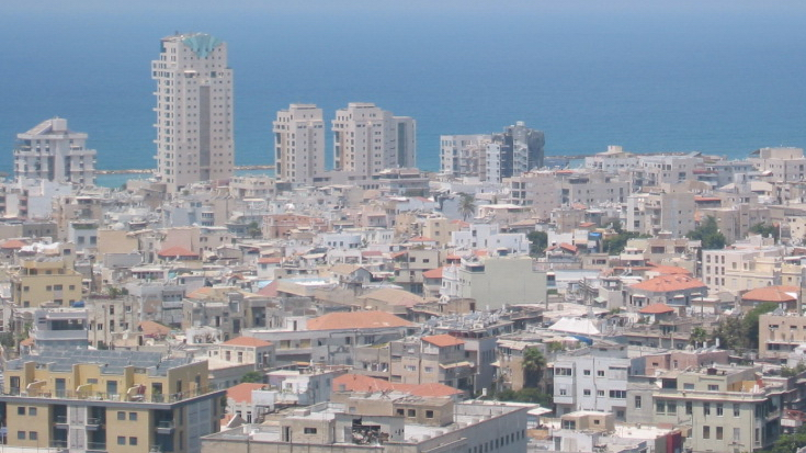 Kerem Hatemanim neighbourhood, Tel Aviv